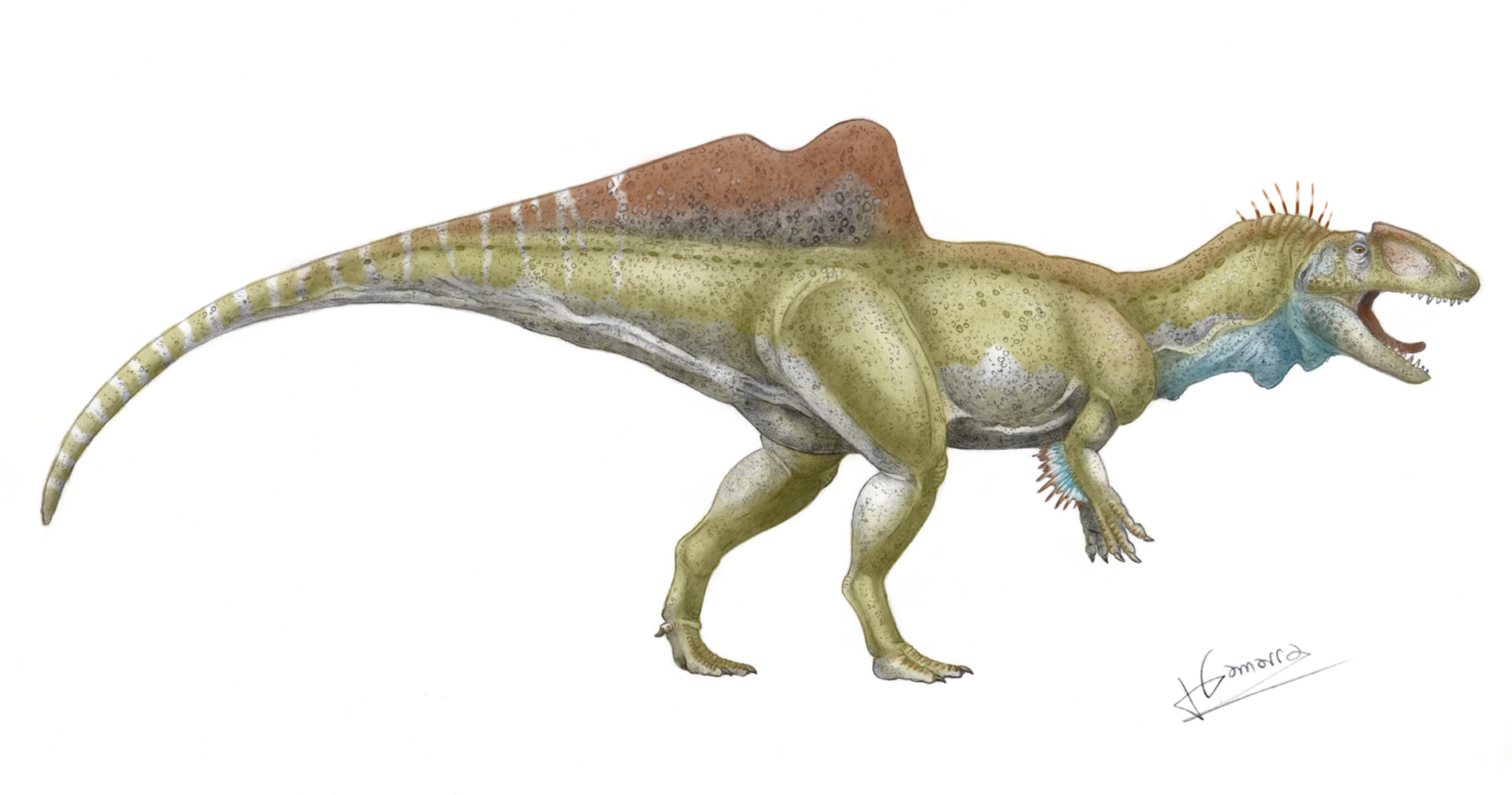 Concavenator corcovatus reconstruction